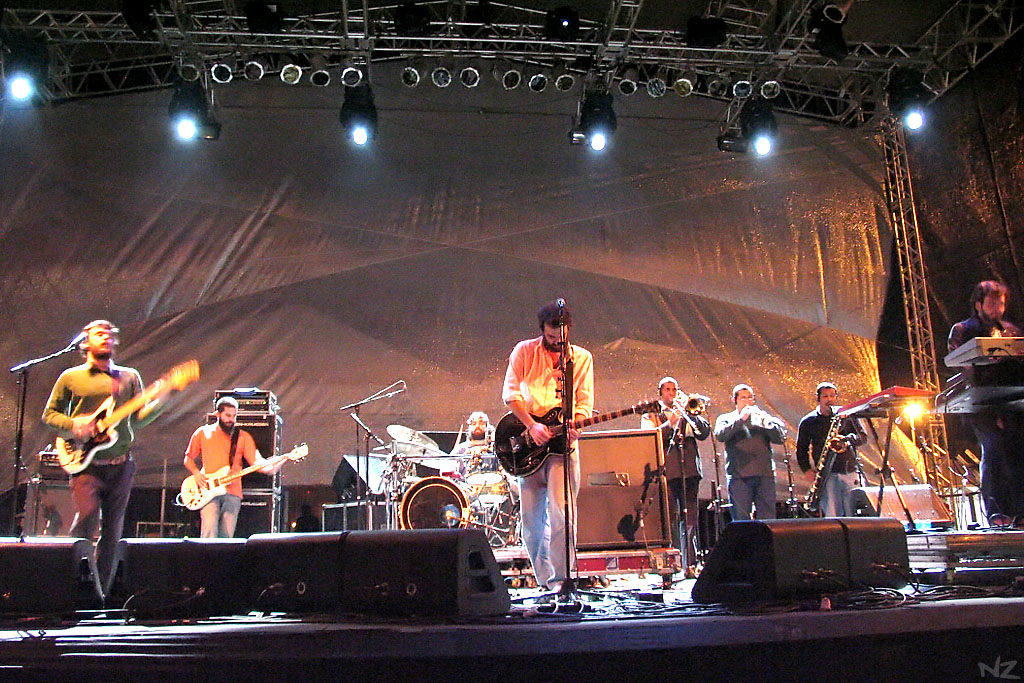 Brazillian band Los Hermanos